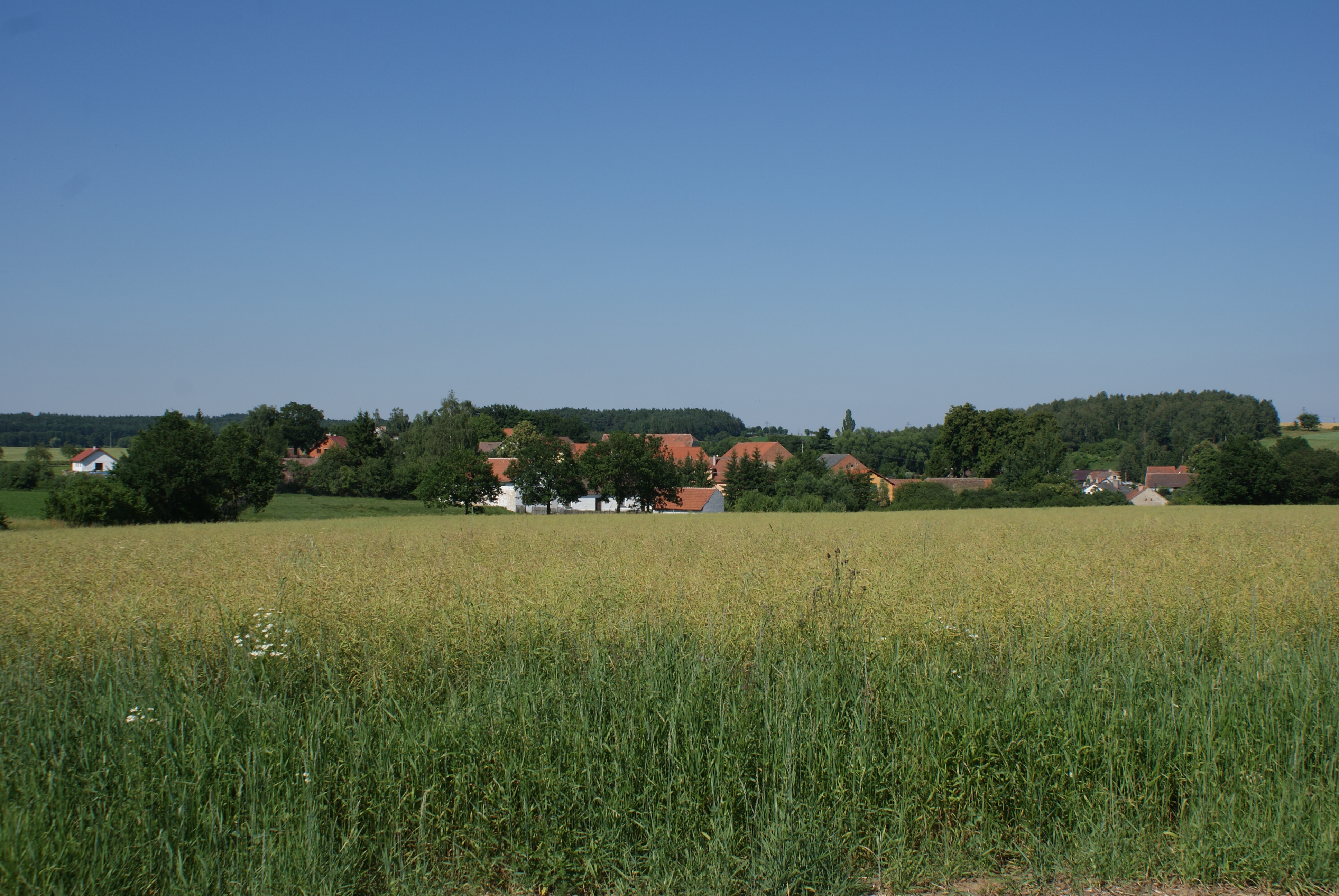 Svojšice, a village in Příbram district, Czech Republic, general view. Česky: Svojšice, okres Příbram, celkový pohled